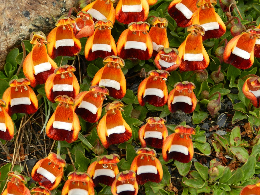 Calceolaria uniflora